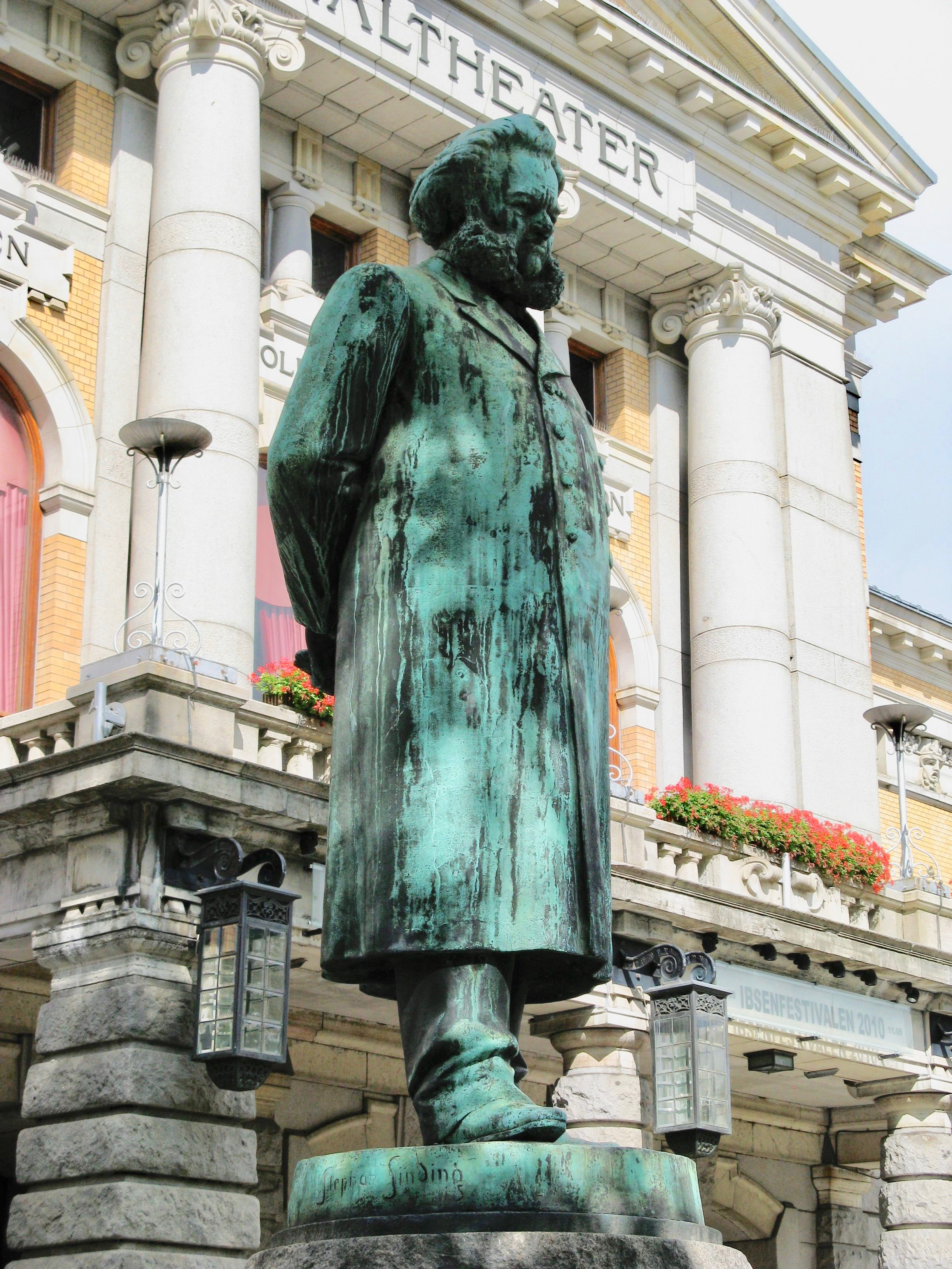 Statue of Henrik Ibsen by Stephan Sinding at Nationaltheatret in Oslo.